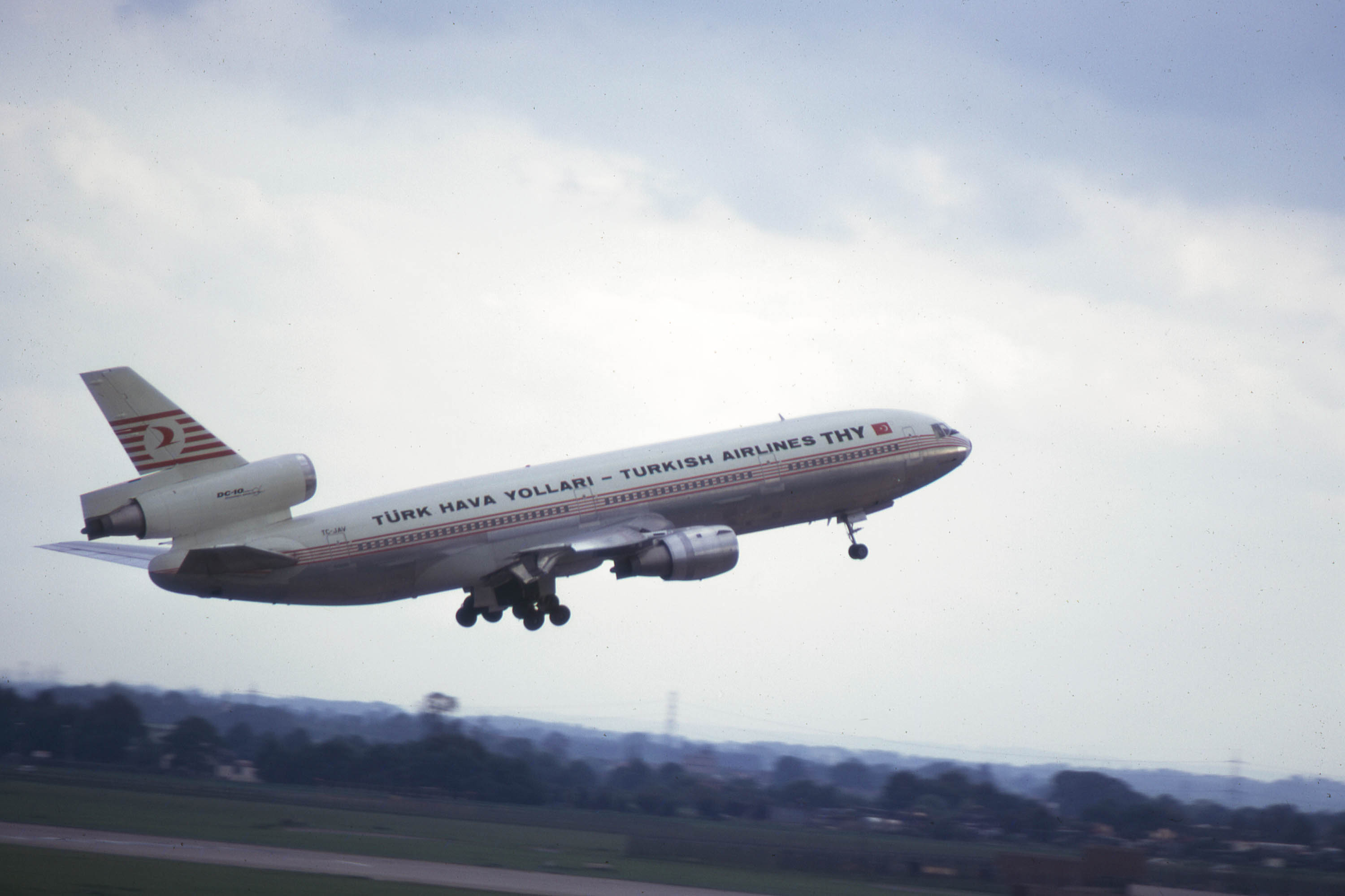 "Ankara", London Heathrow Summer 1973. Crashed March 3, 1974.